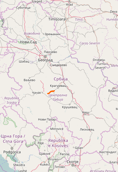 OpenStreetMap of State Road 46 in Serbia.